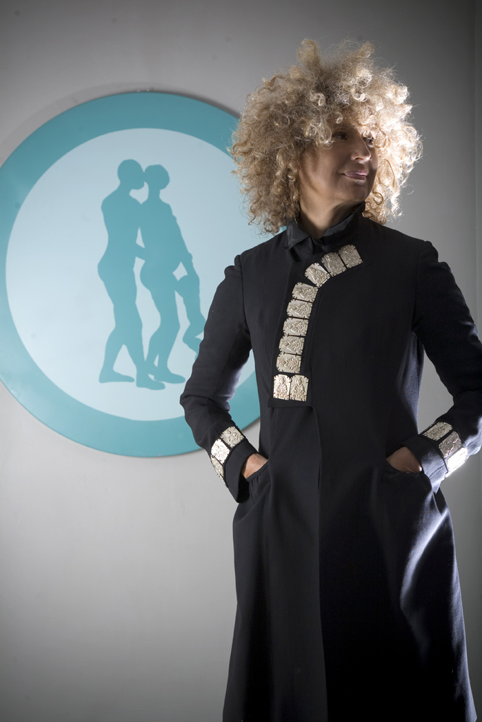 Owanto artist